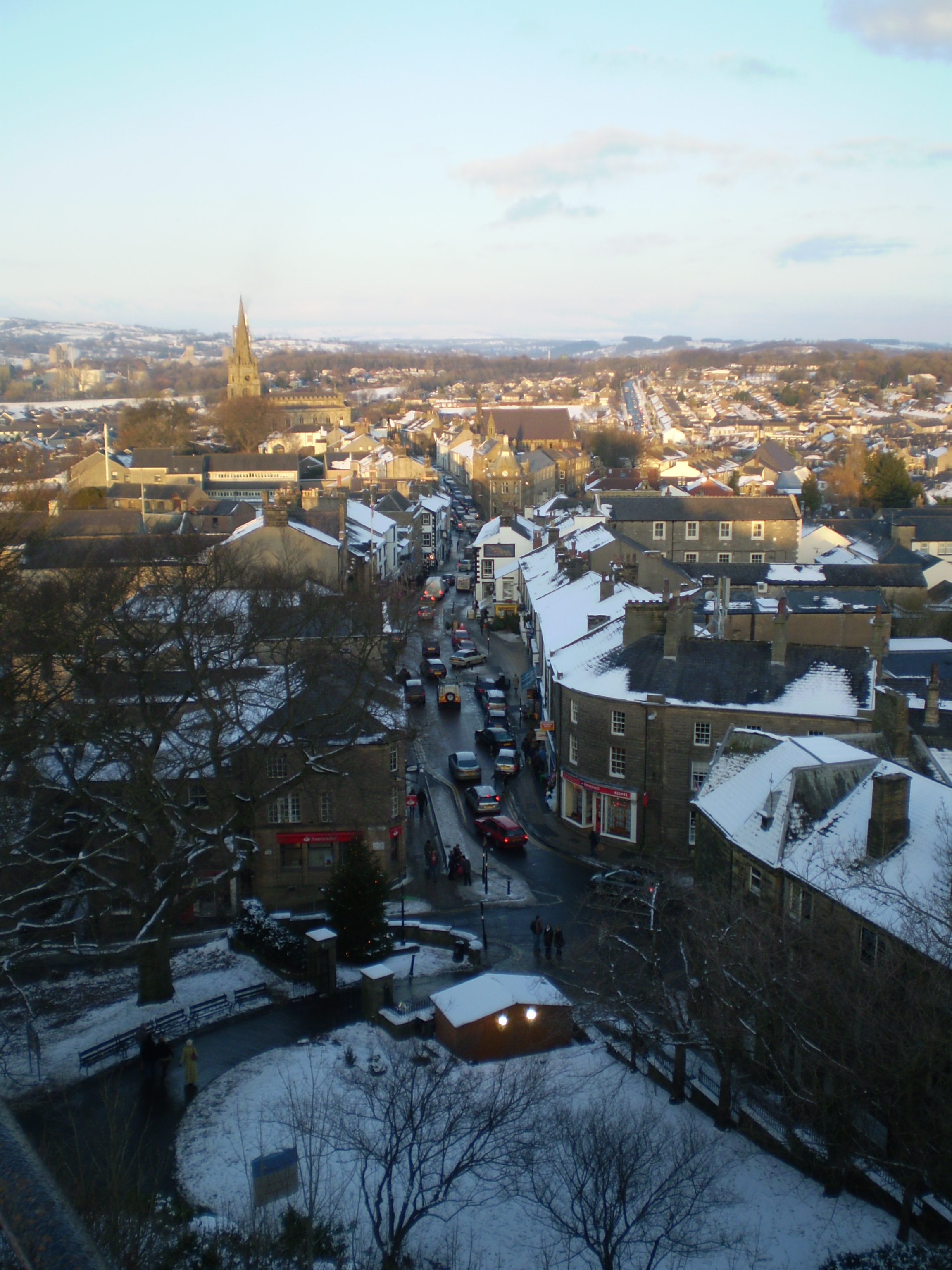 View of Clitheroe's main street from the castle